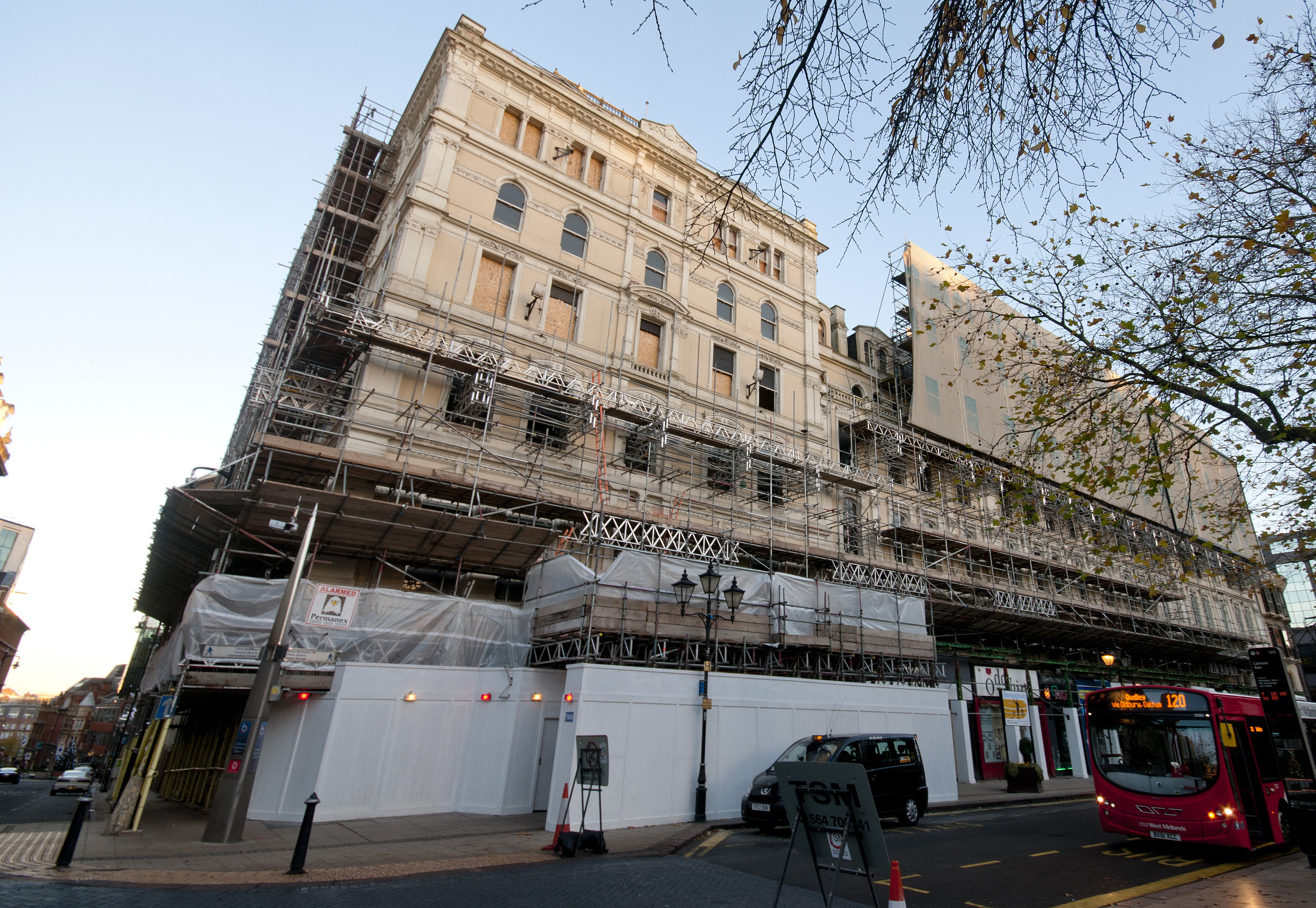 The Colmore Row frontage of the Grand Hotel, Birmingham, undergoing restoration works in November 2012.